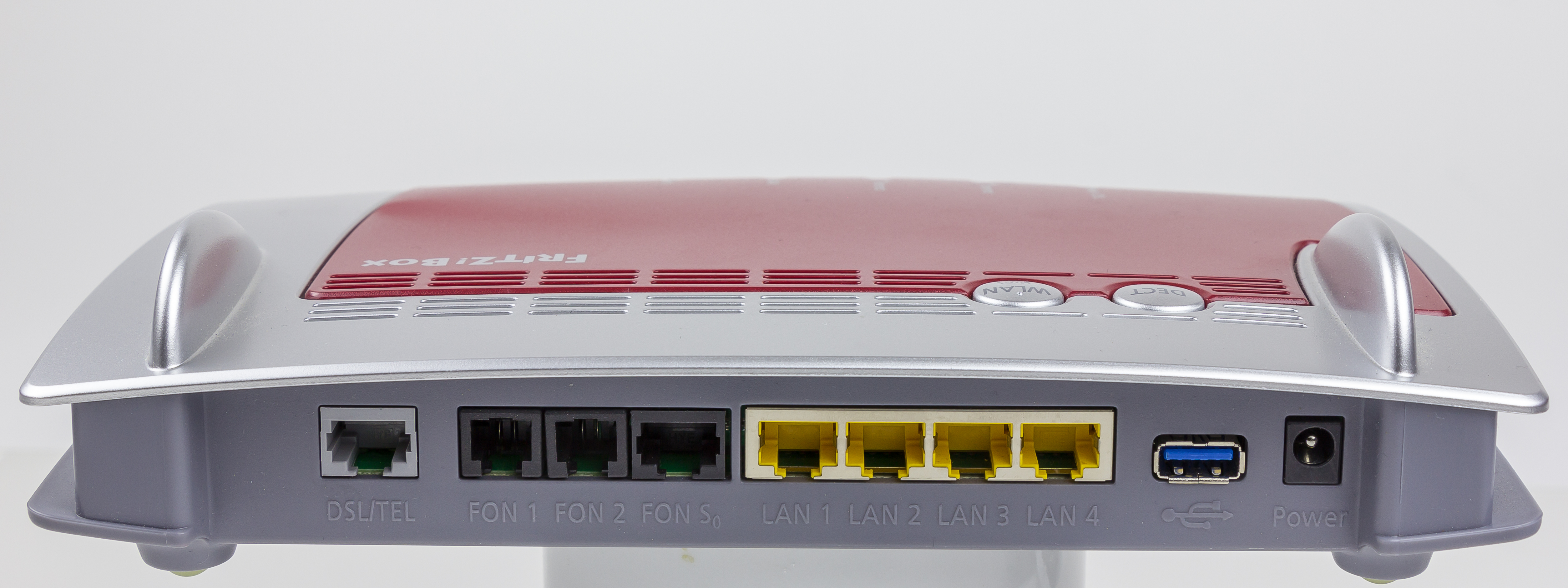 AVM DSL modem FRITZ!Box 7490